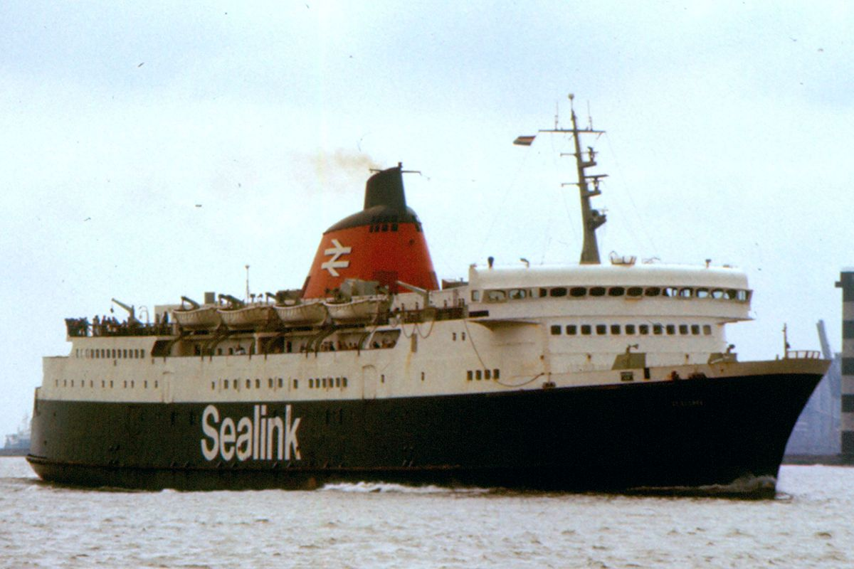 The ferry St. George at Hoek van Holland on August 1, 1980.